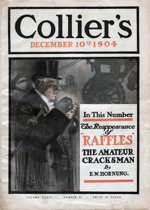 Collier's illustration for E. W. Hornung's Raffles short story "Out of Paradise" by J. C. Leyendecker. This story was first published in the US in Collier’s Weekly in the December 10, 1904 issue, and in the January 1905 issue of Pall Mall Magazine in the UK. It takes place in May, 1891.